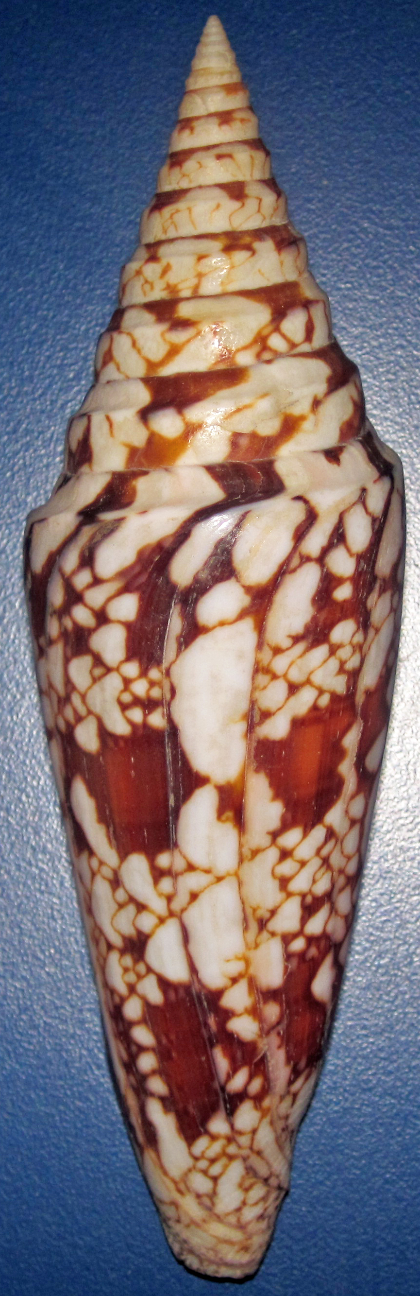 Conus milneedwardsi Jousseaume, 1894 - Glory of India cone snail shell (abapertural view), modern (latest Holocene). (public display, Bailey-Matthews Shell Museum, Sanibel Island, Florida, USA) The gastropods (snails & slugs) are a group of molluscs that occupy marine, freshwater, and terrestrial environments. Most gastropods have a calcareous external shell (the snails). Some lack a shell completely, or have reduced internal shells (the slugs & sea slugs & pteropods). Most members of the Gastropoda are marine. Most marine snails are herbivores (algae grazers) or predators/carnivores. The conid gastropods (cone shells) are fascinating marine snails for a couple reasons - they have attractively-shaped, colorful shells and they are killers. The conids are predatory, as are many other marine snails, but they take down their prey in an unusual fashion. The radula of most snails is a mineralized or heavily sclerotized mass of small teeth that scrapes across a substrate during feeding. Conid snails have a toxoglossate radula - one that has been evolutionarily modified into tiny, unattached, toxin-bearing, harpoon-like darts (see photo - that can be fired at prey. Each dart is an individual tooth. The nickname "killer snails" is well deserved (even people have been killed). Some species have incredibly powerful toxins, while in other species the toxin has little effect on humans. Classification: Animalia, Mollusca, Gatropoda, Neogastropoda, Conoidea, Conidae More info. at: and